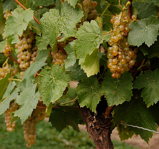 Hybrid Vidal blanc grapes growing in the Canadian wine region of Niagara, Ontario